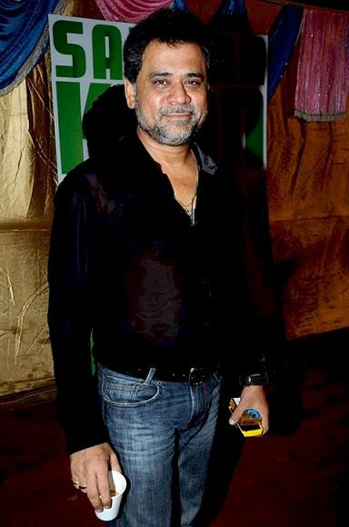 Anees Bazmee at the audio release of 'Ready'